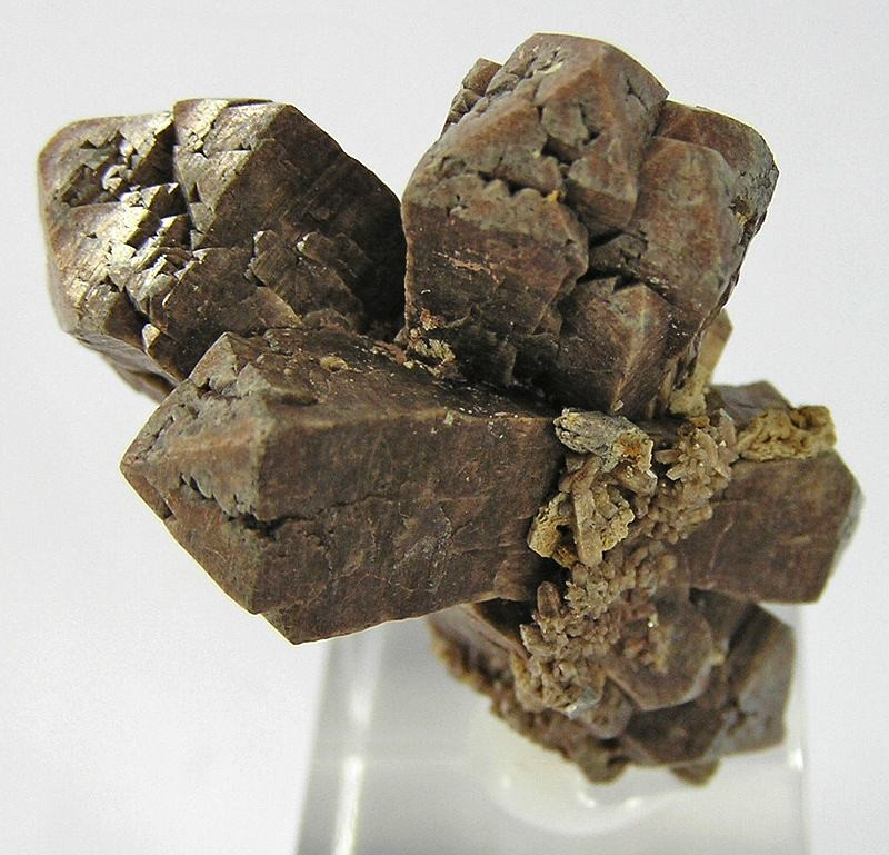 Zircon Locality: Mt Malosa, Zomba District, Malawi (Locality at ) Size: 3 x 2.9 x 2 cm. From a relatively recent find in Malawi, an extremely aesthetic cluster of three compound crystals of zircon, a floater with no attachments or damage, and all terminations complete. Note the pretty repetition of the pyramidal form in the sub-terminations.